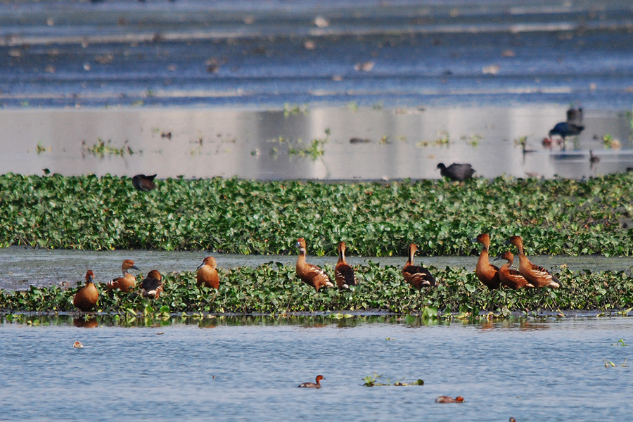 FulvourWhistlingDucks